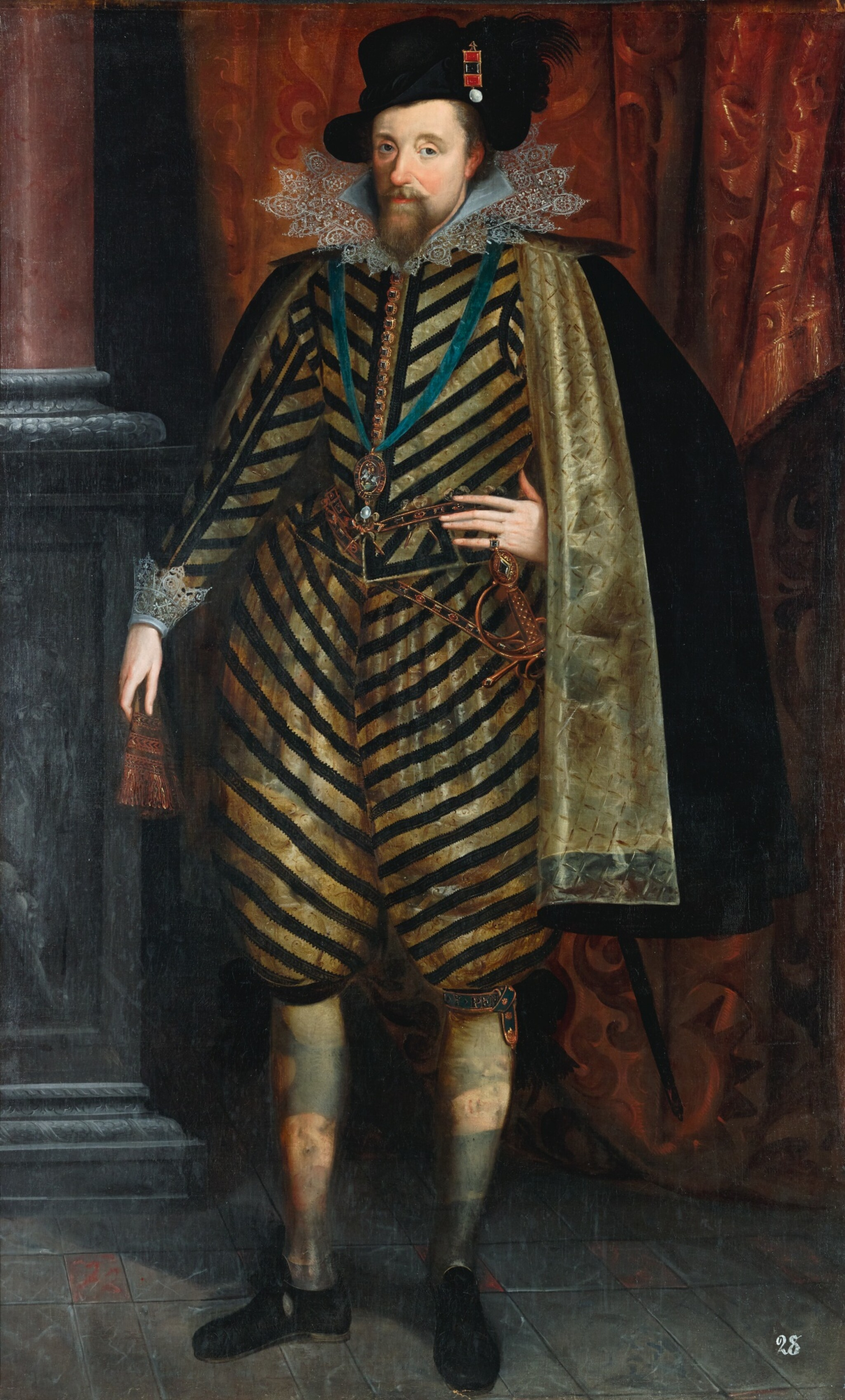 James VI of Scotland, I of England and Ireland